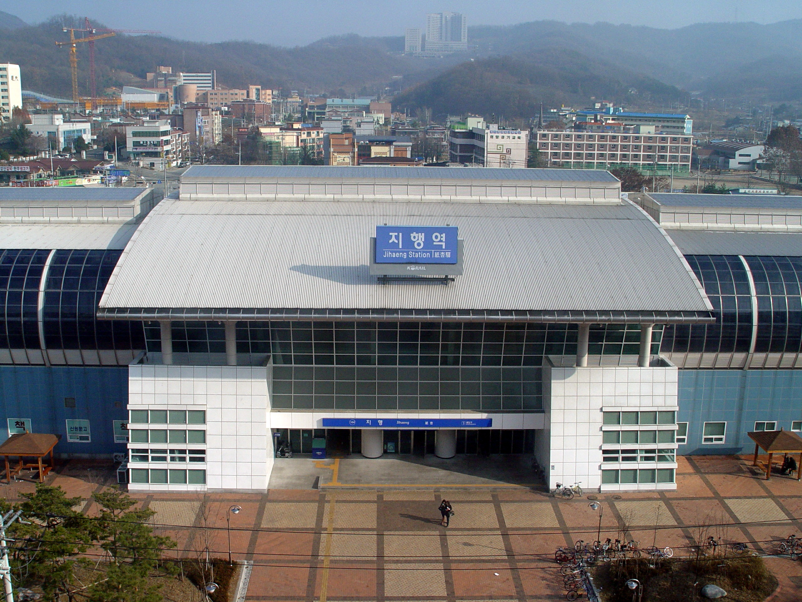 Jihaeng Station Building taken from 7th Floor of Dongducheon Convention Hall